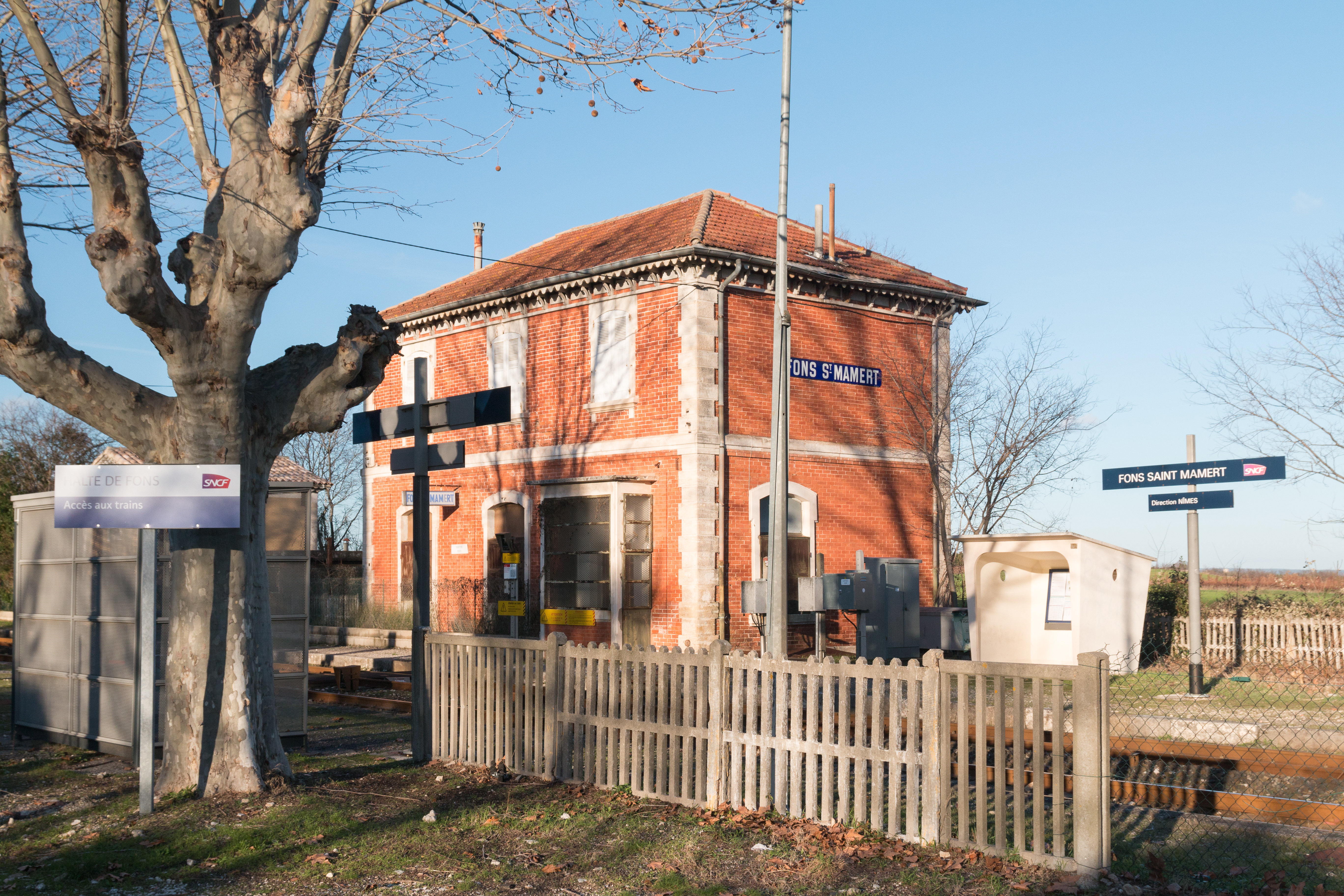 Old railway station of Fons-outre-Gardon and St. Mamert.